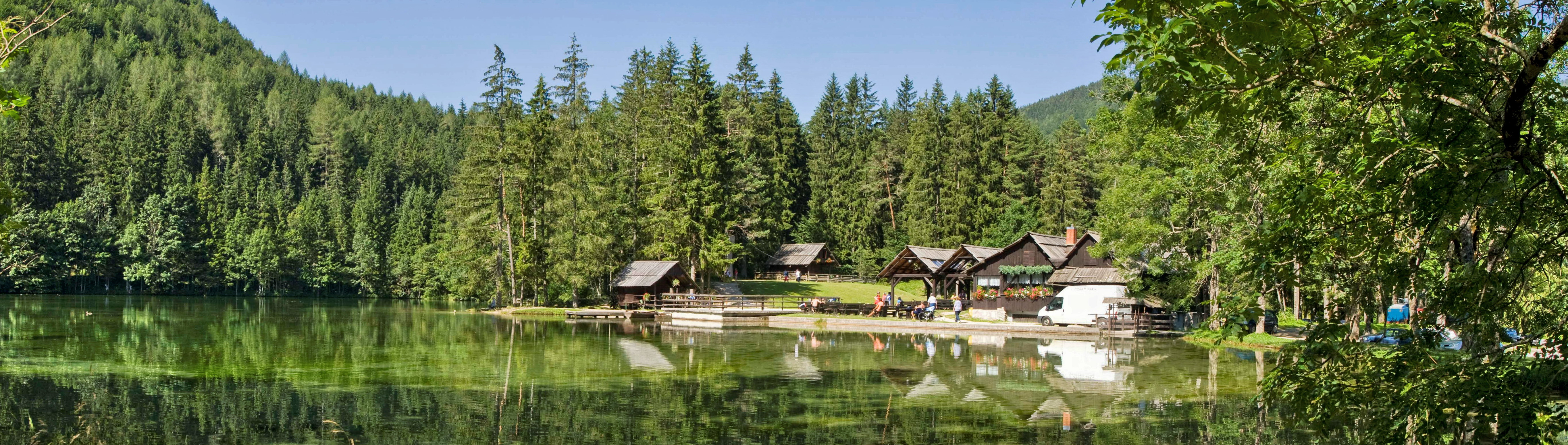 Jezero na Jezerskem